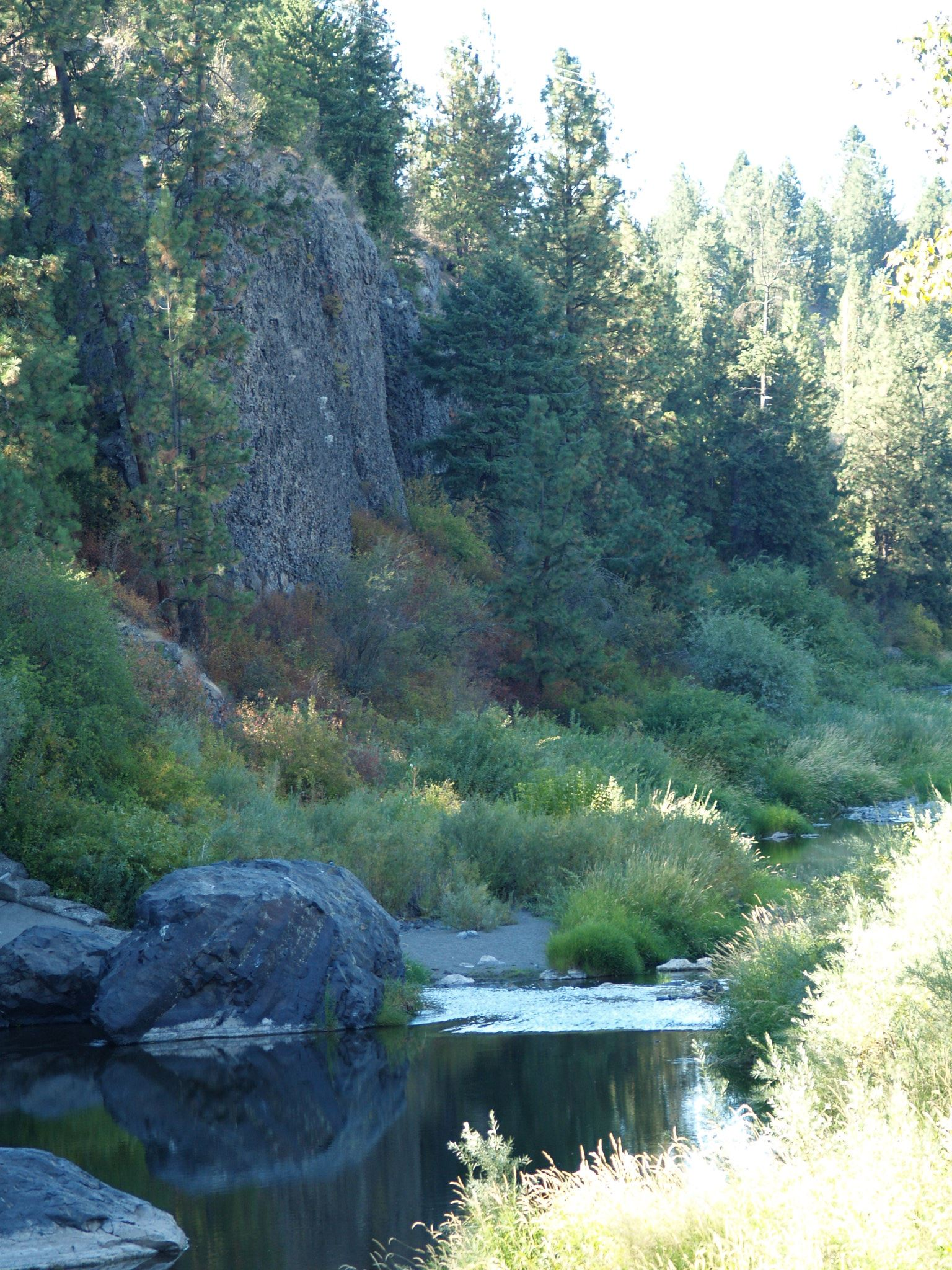 Looking downstream at Latah Creek in Vinegar Flats, Spokane, WA. This photo was taken from the Chestnut St. Bridge in September, 2012.